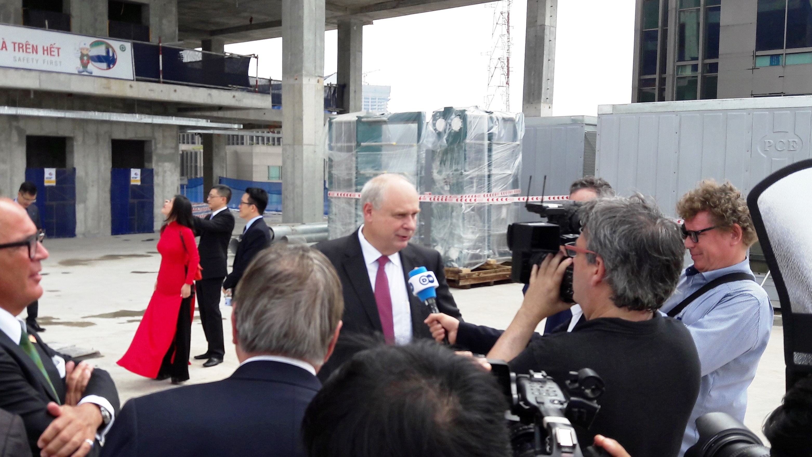 2016-11-01,Deutsches Haus HCM, Topping out event, press conference, Horst Geicke